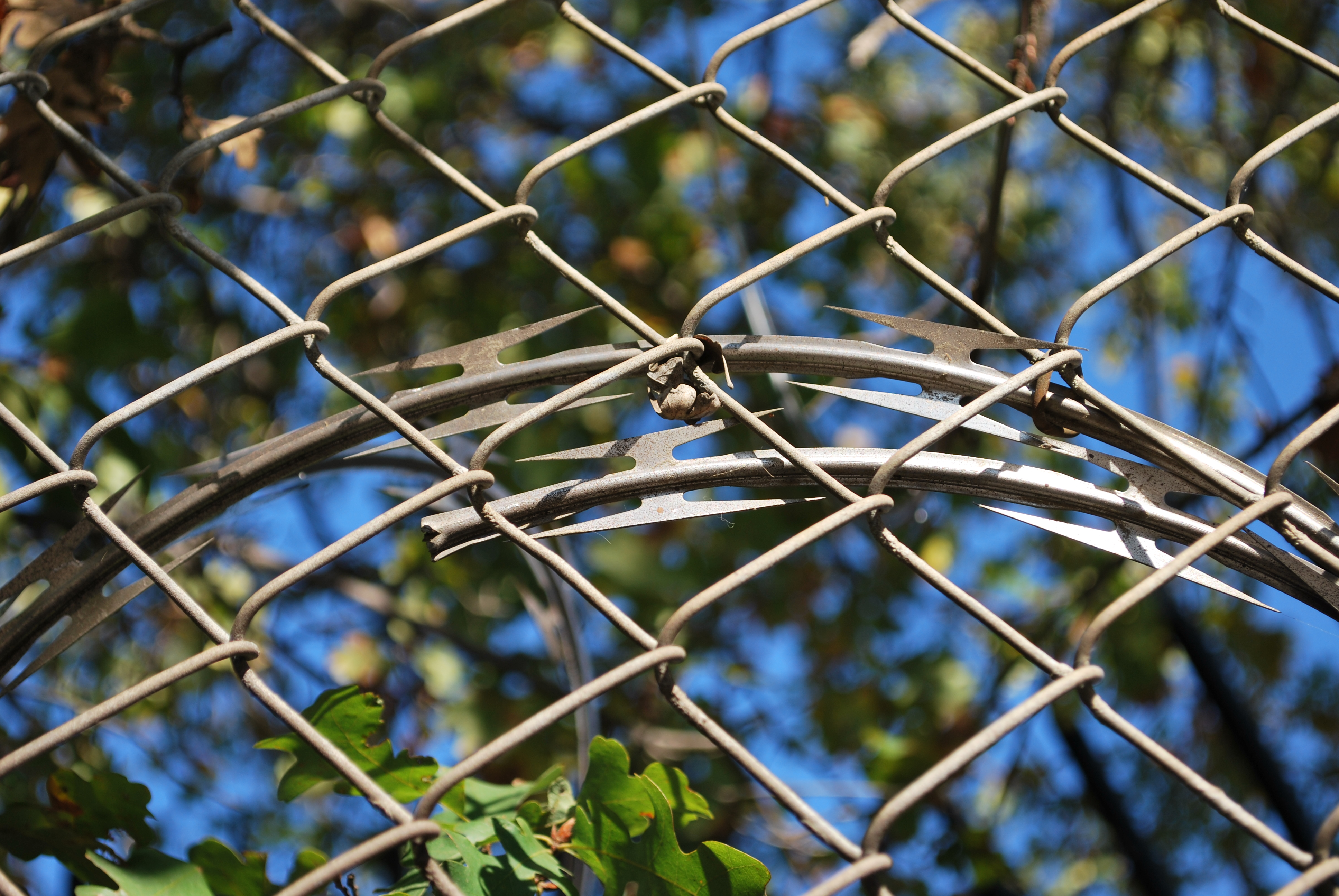 A bit of barbed tape behind some chain-link fence.